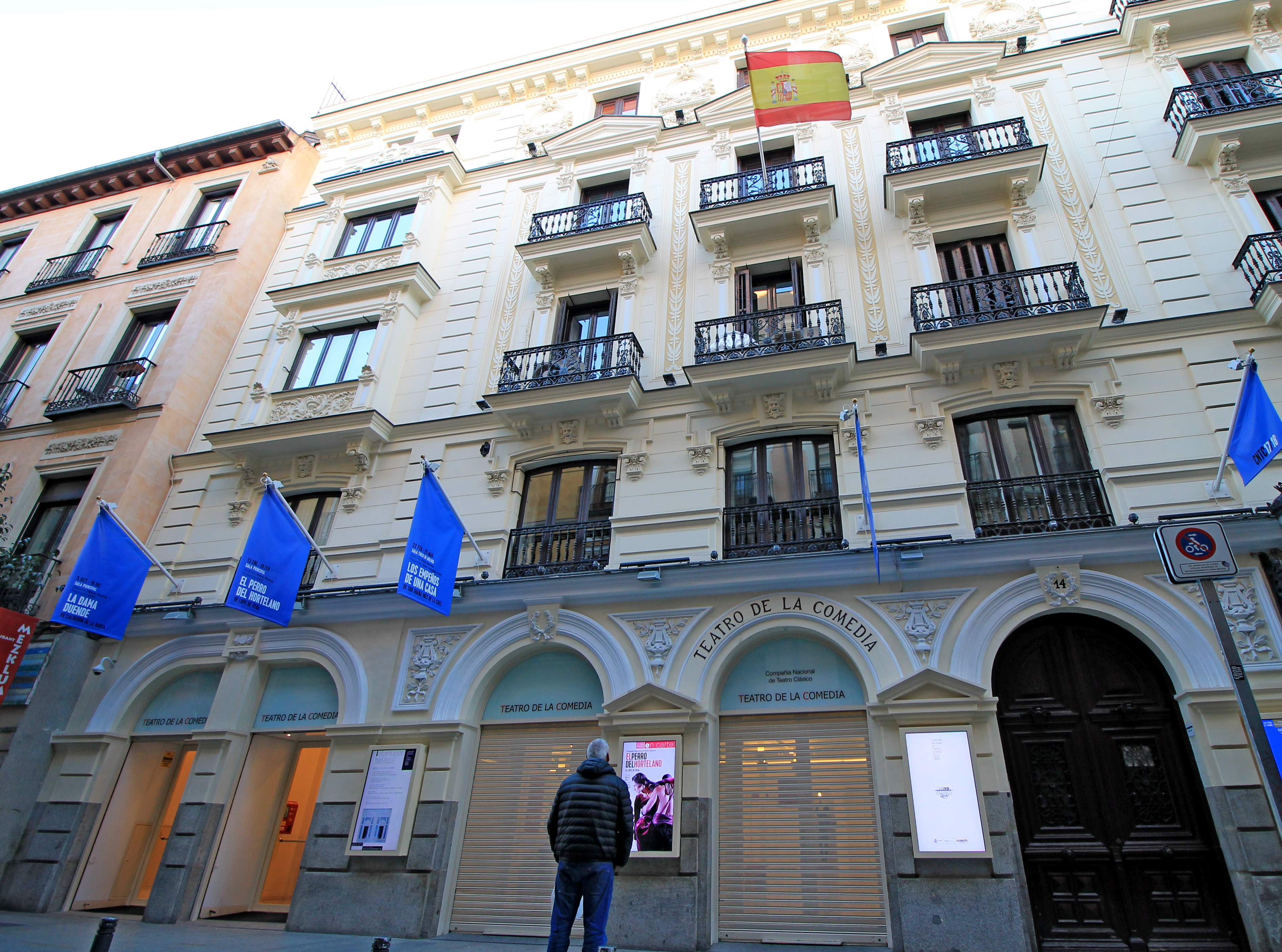 Façade of Teatro de la Comedia (a theatre) in Madrid (Spain).